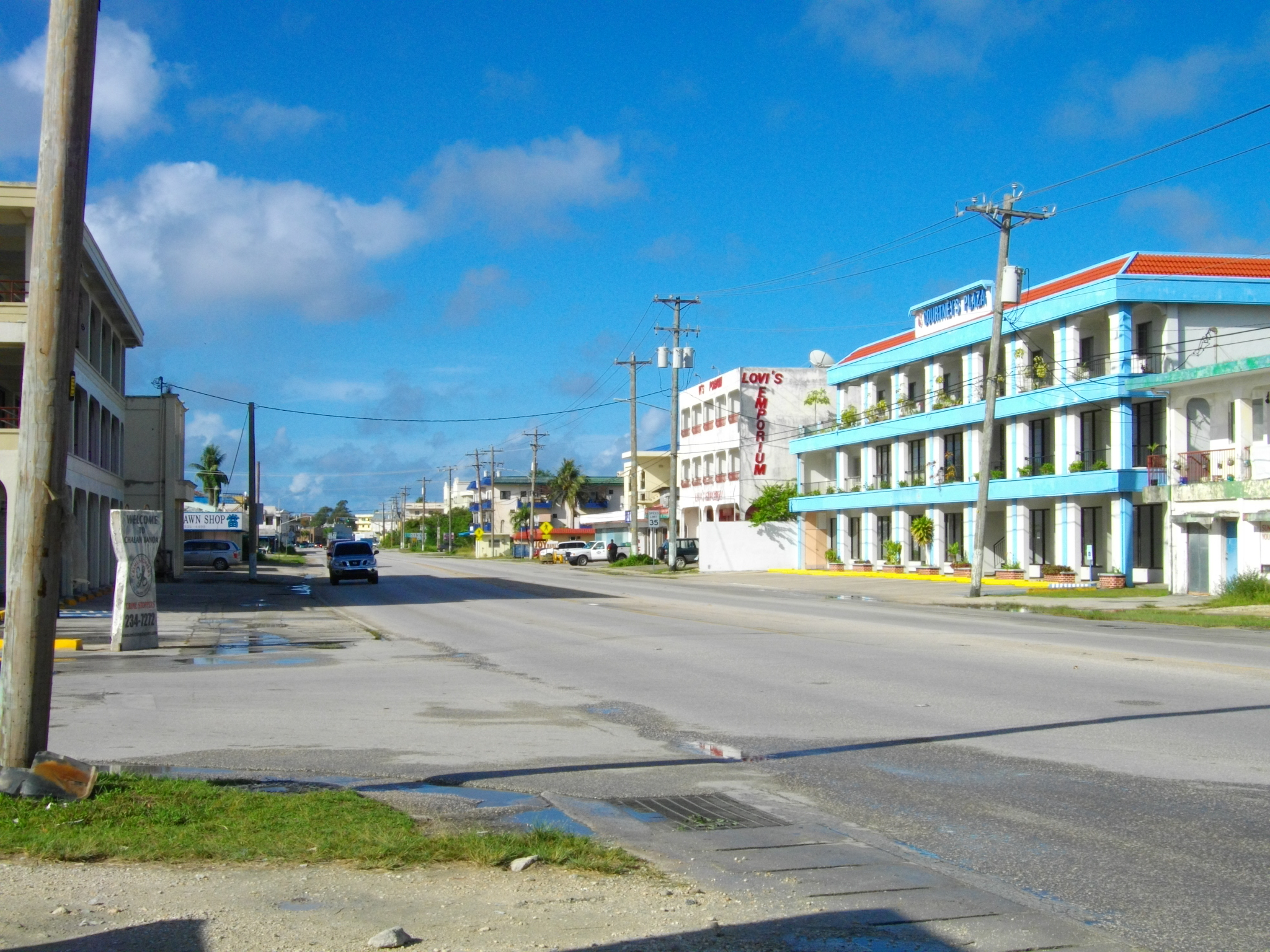 Beach Road at Chalan Kanoa